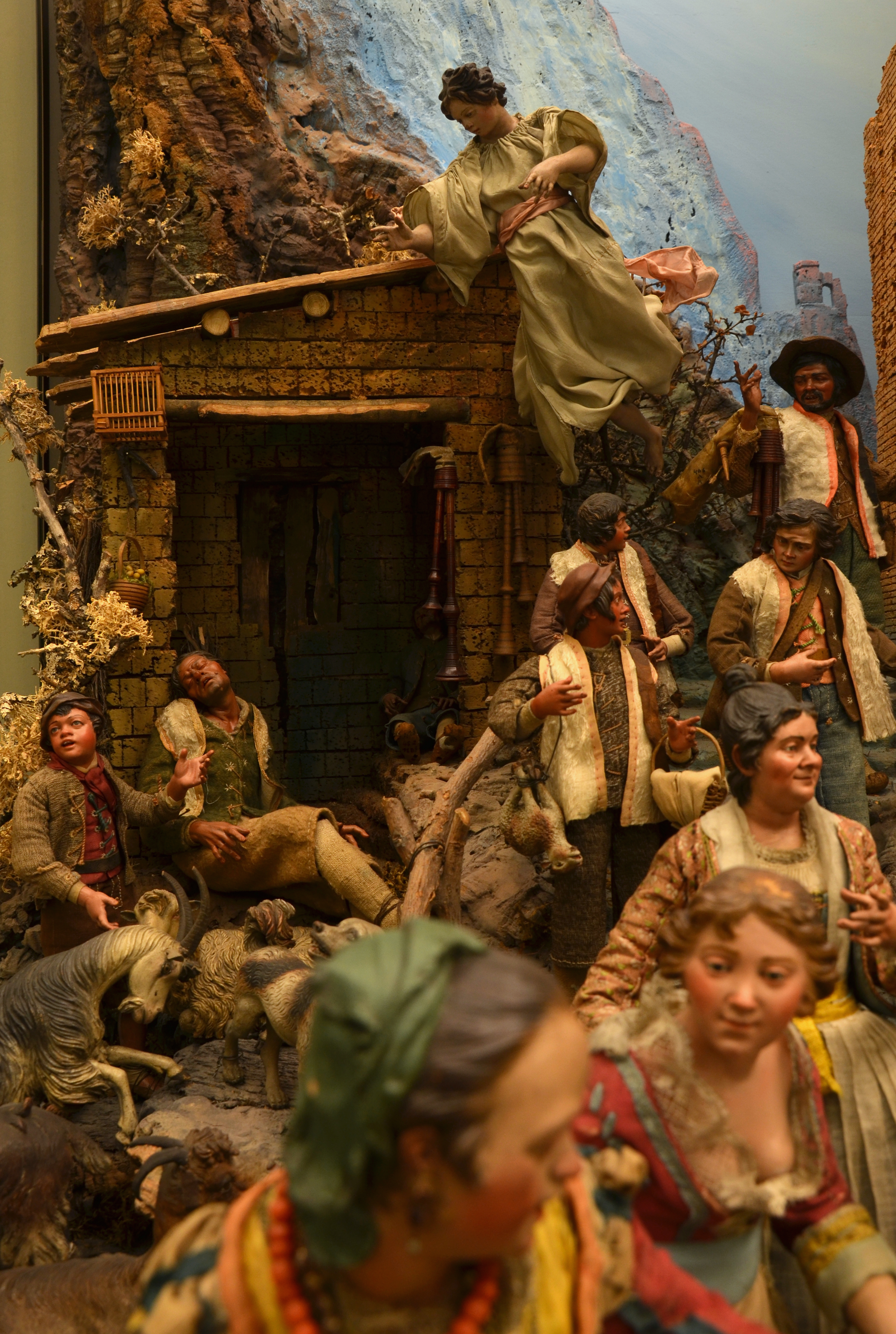 Detail of a nativity scene from Naples ( 18th century ), exposed in the Musée des Beaux Arts de Rouen, in France.